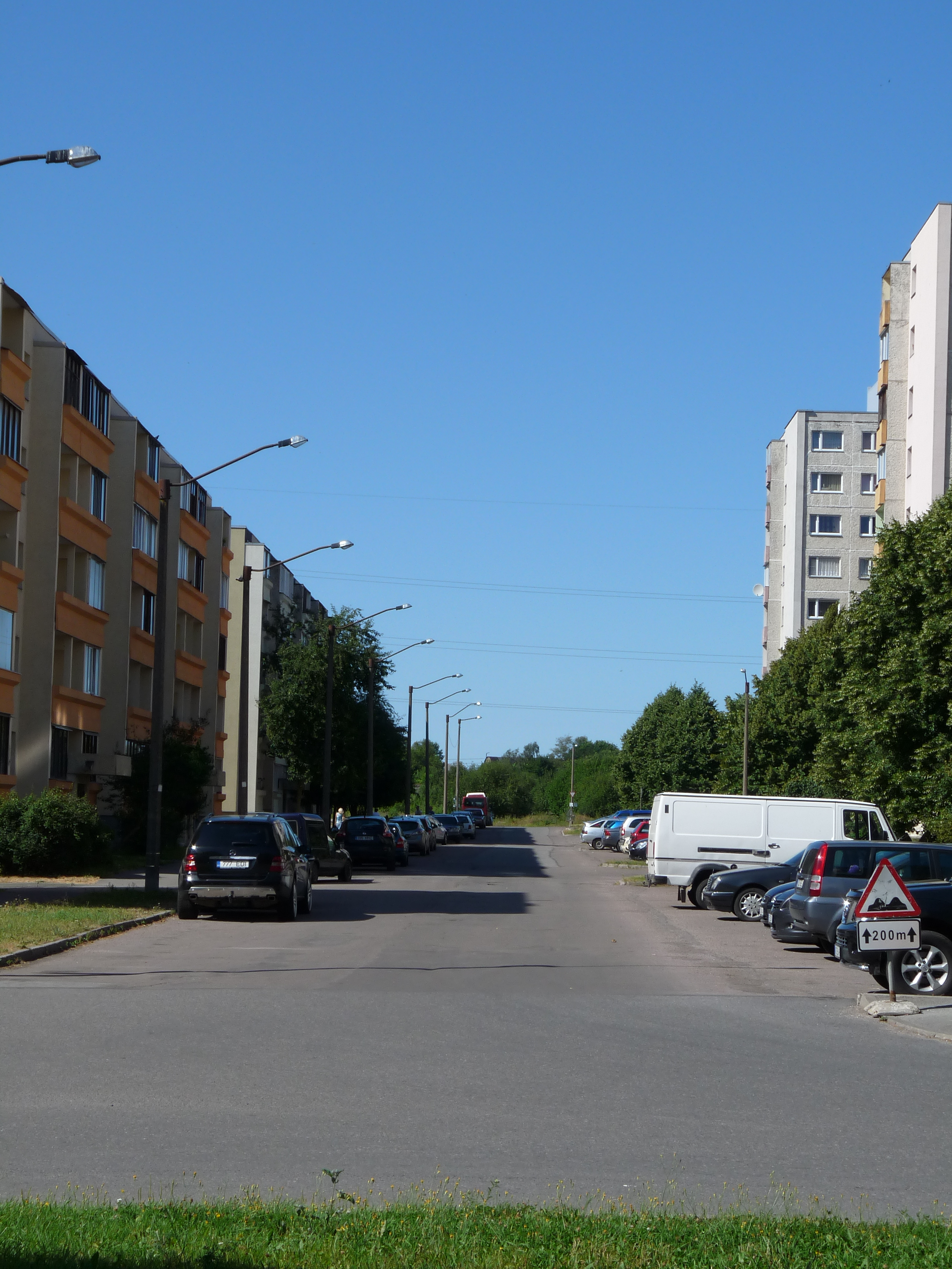 Võru street in Tallinn, Estonia